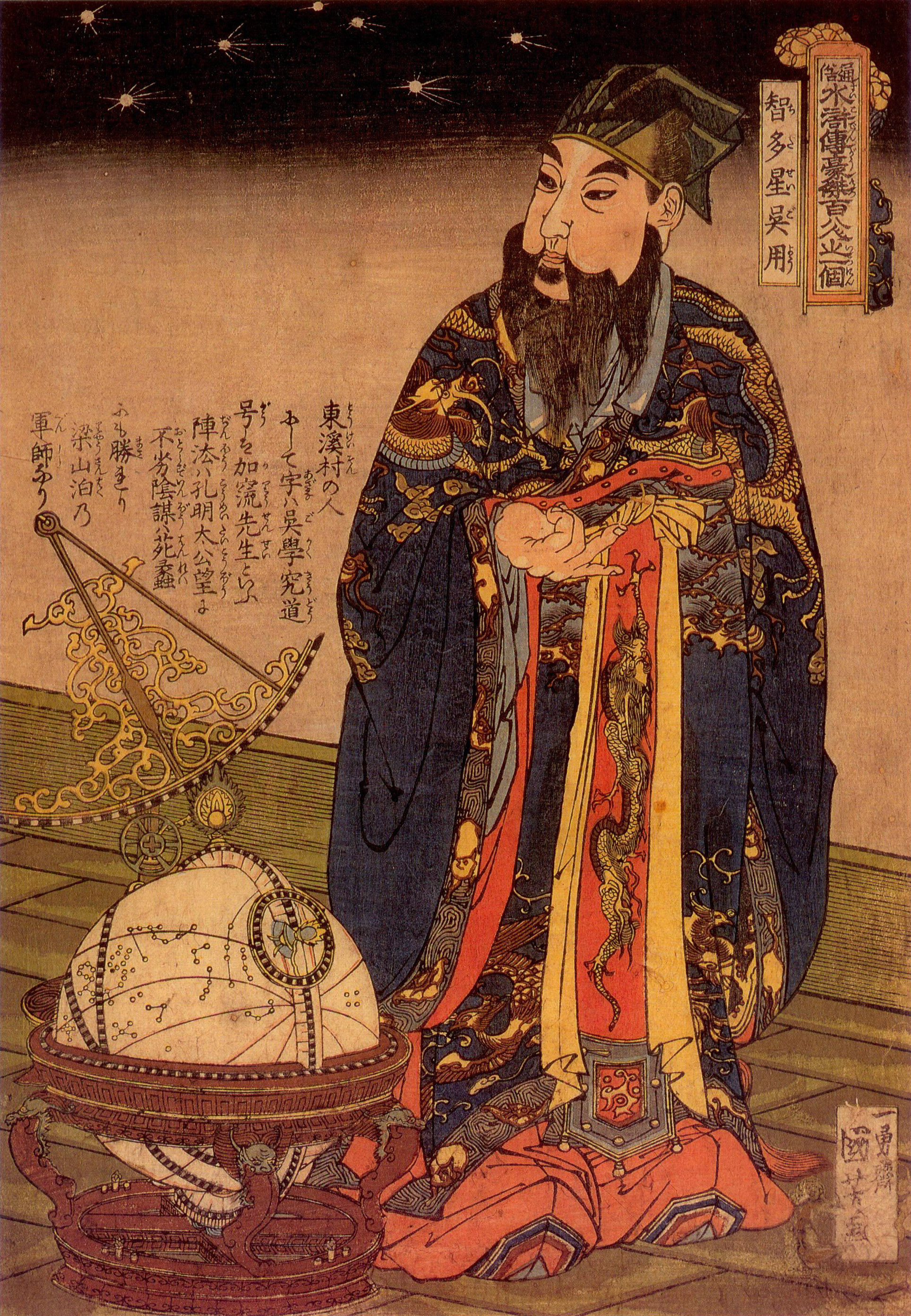 Chitasei, Go Yō (in Mandarin Chinese, "Zhiduoxing, Wu Yong"), a fictional character from the classic Chinese novel Water Margin.